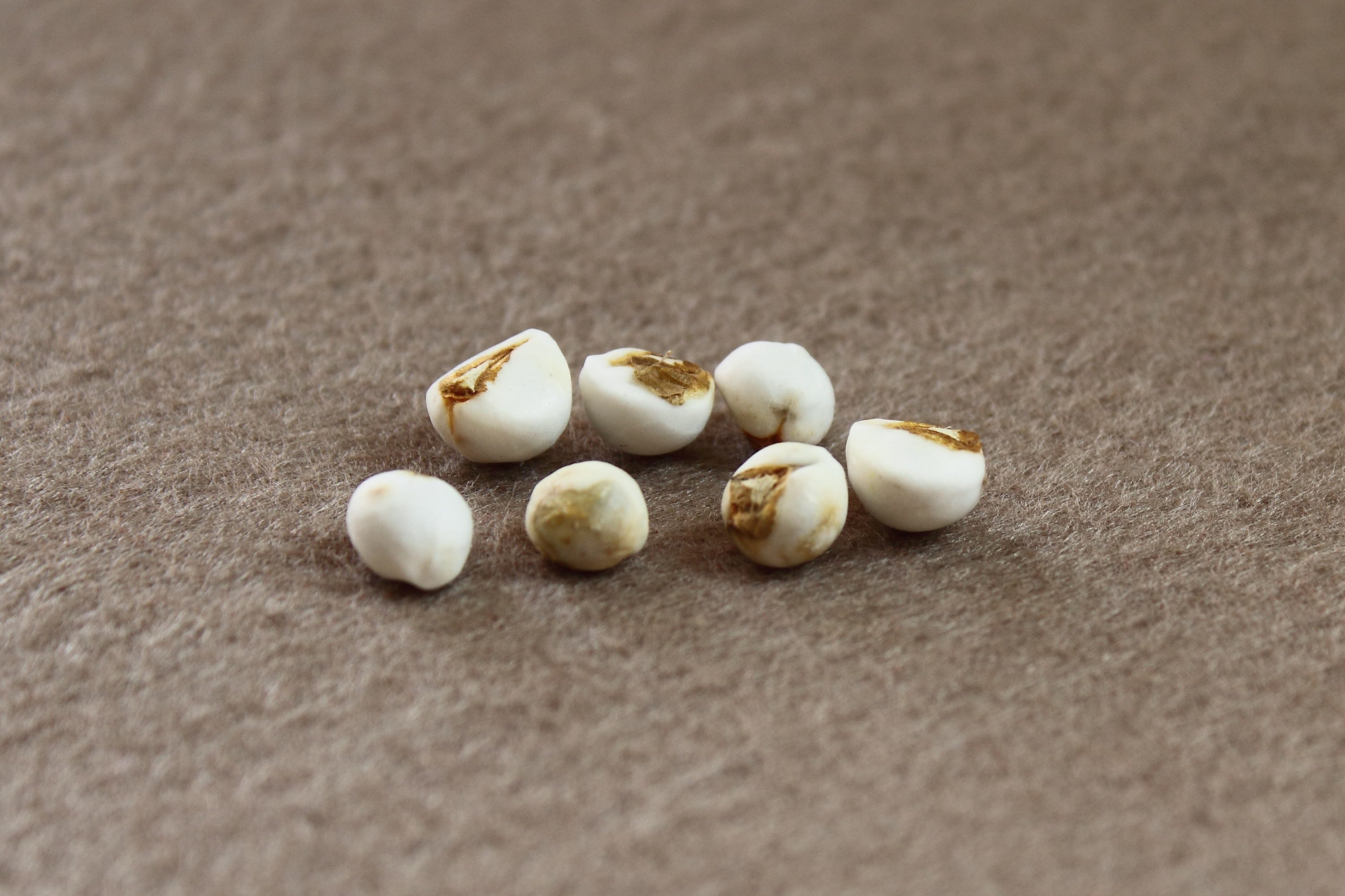 seeds of Triadica sebifera